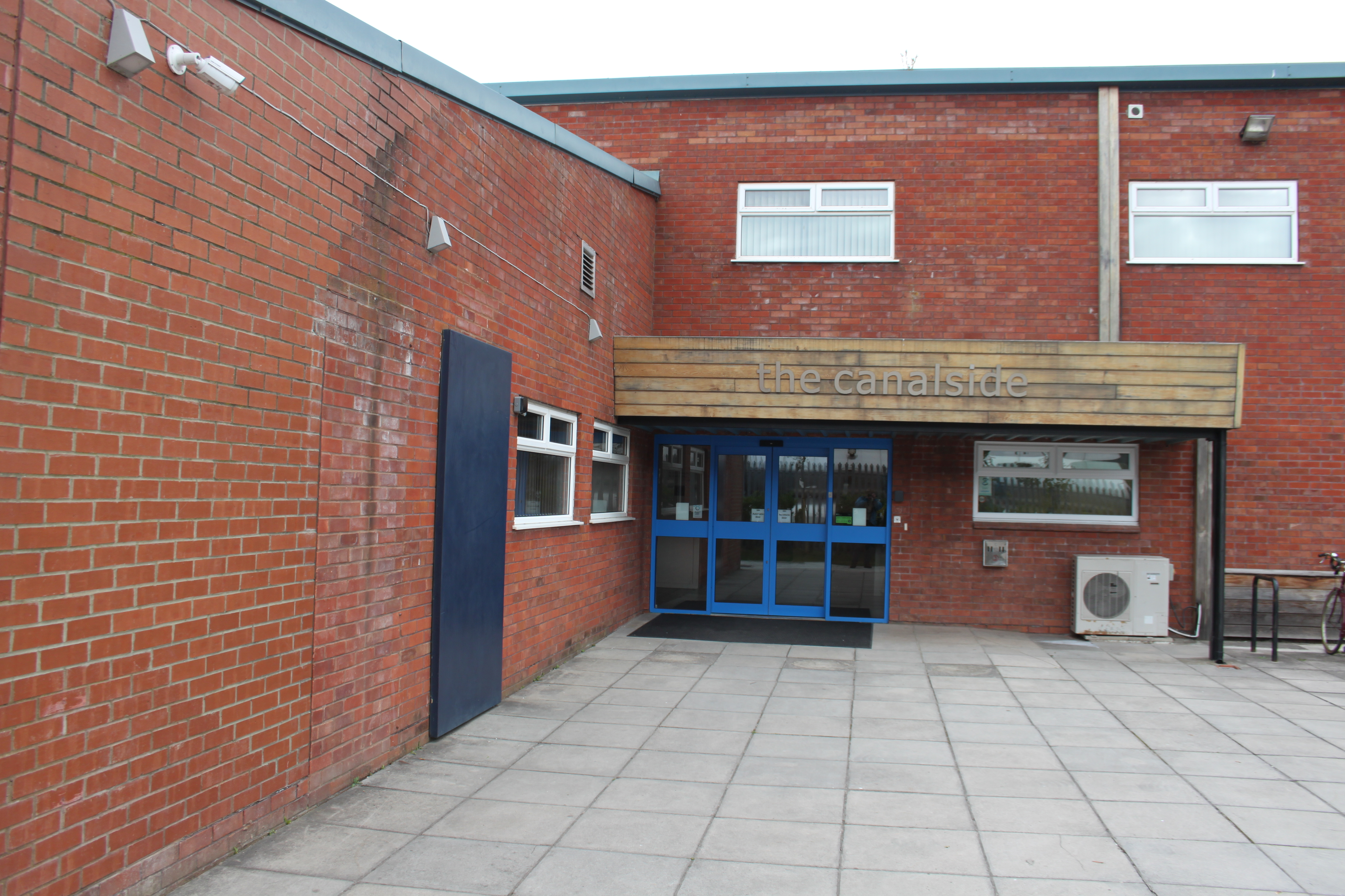 Bridgwater Canalside Centre